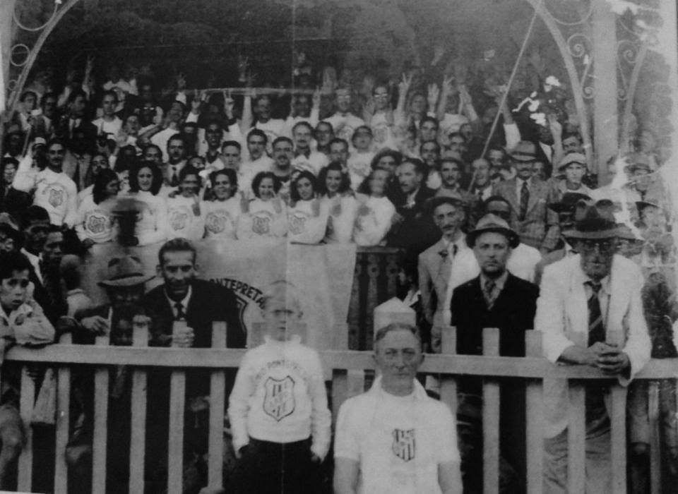 The 1st cheerleading Ponte Preta and one of the first in Brazil.